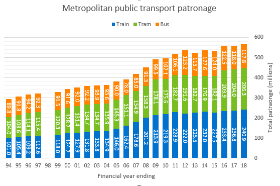 This chart shows the annual boardings of "metropolitan" public transport in Melbourne, Australia, from 1994 to 2018. Each data point represents the boardings from the Australian financial year ending at the end of June: for example, the "08" point represents boardings from 1 July 2007 to 30 June 2008. The data is as reported in the annual reports of government agencies with public transport responsibility: the Department of Infrastructure from 1994 to 2007, the Department of Transport from 2008 to 2011, and Public Transport Victoria from 2012 onwards. Their definitions of "metropolitan" include the entire Melbourne tram network, the electrified suburban rail network, and all bus services operating within greater Melbourne. No data was available from these sources for 1997 so this figure has been interpolated with an arithmetical average.